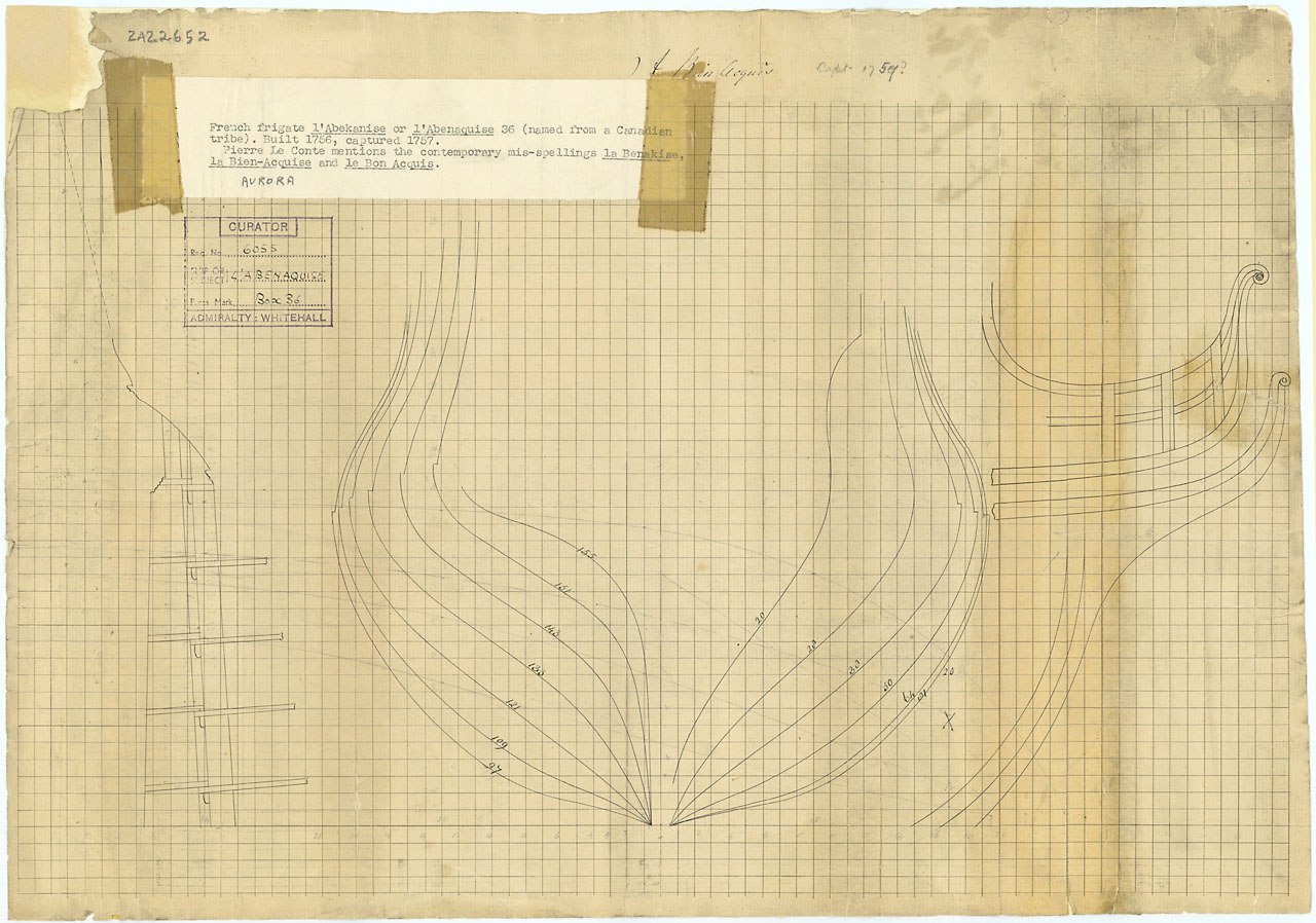 Aurora (captured 1757) Scale: 1:48. Plan showing the body plan, stempost and rudder elevation, and bow and head elevation for Aurora (captured 1757), a captured French Frigate. The plan is headed under the common misspelling of her French name, and suggests that it is dated before 22 June 1758, when she was renamed Aurora, and then fitted as 38-gun Fifth Rate Frigate at Portsmouth Dockyard. The plan includes an undated typed set of notes relating to the ship's name Sellotaped to the front of the plan. AURORA 1757